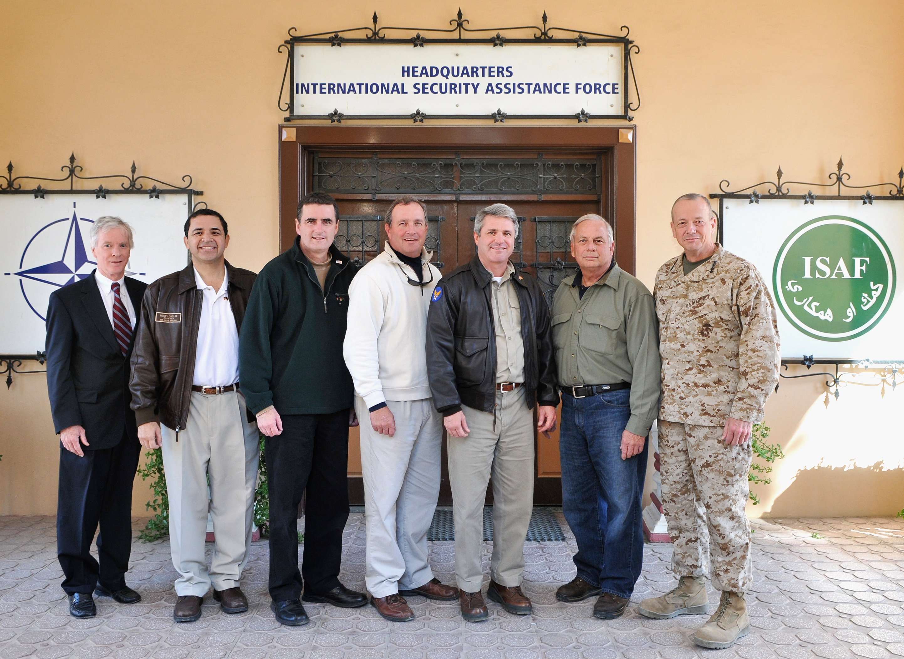 Commander of International Security Assistance Force Gen. John R. Allen, far right, and U.S. Ambassador to Afghanistan Ryan Crocker, far left, met with Congressmen from the U.S. House of Representatives Committee on Homeland Security at ISAF Headquarters. From left to right, Reps. Henry Cuellar of Texas, Michael G. Fitzpatrick of Penn., Jeff Duncan of S.C., Michael McCaul of Texas, and Gene Green of Texas.